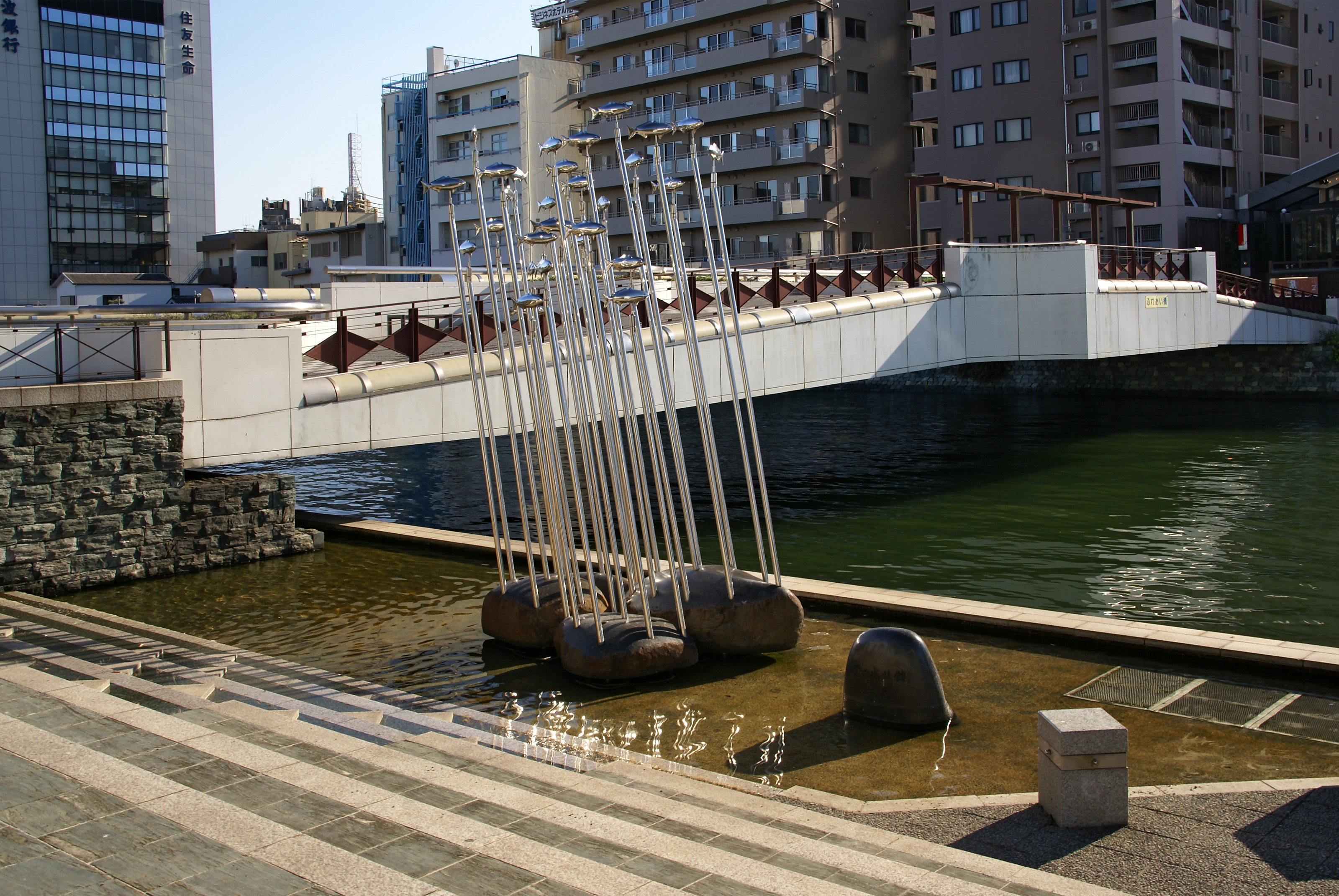 Shinmachi-gawa riverside park in Tokushima, Tokushima prefecture, Japan